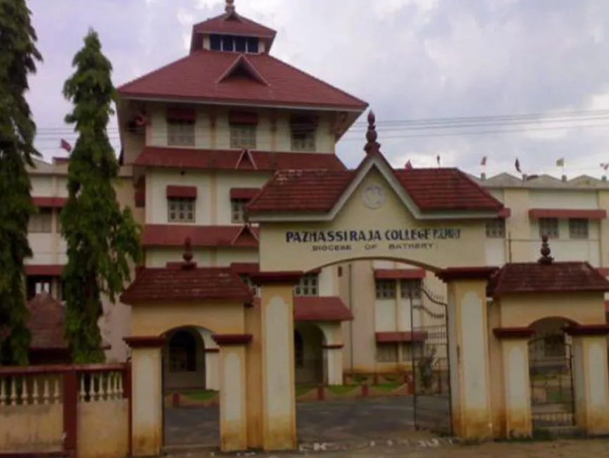 Main Gate